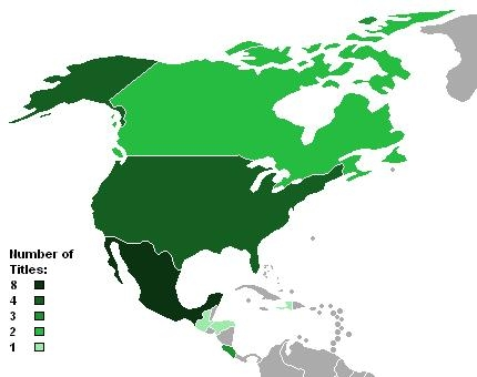 Minor revision of File:NorthAmerica FIFA2.JPG. Mexico's championship total of "7" has been updated to "8" following the 2009 CONCACAF Gold Cup.